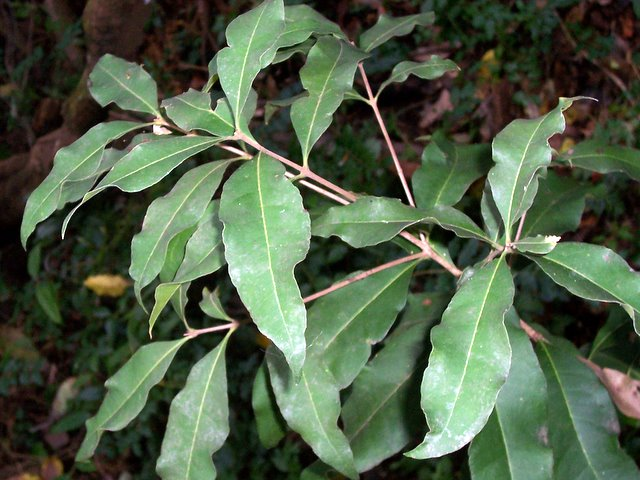 Notelaea venosa at Roseville Chase